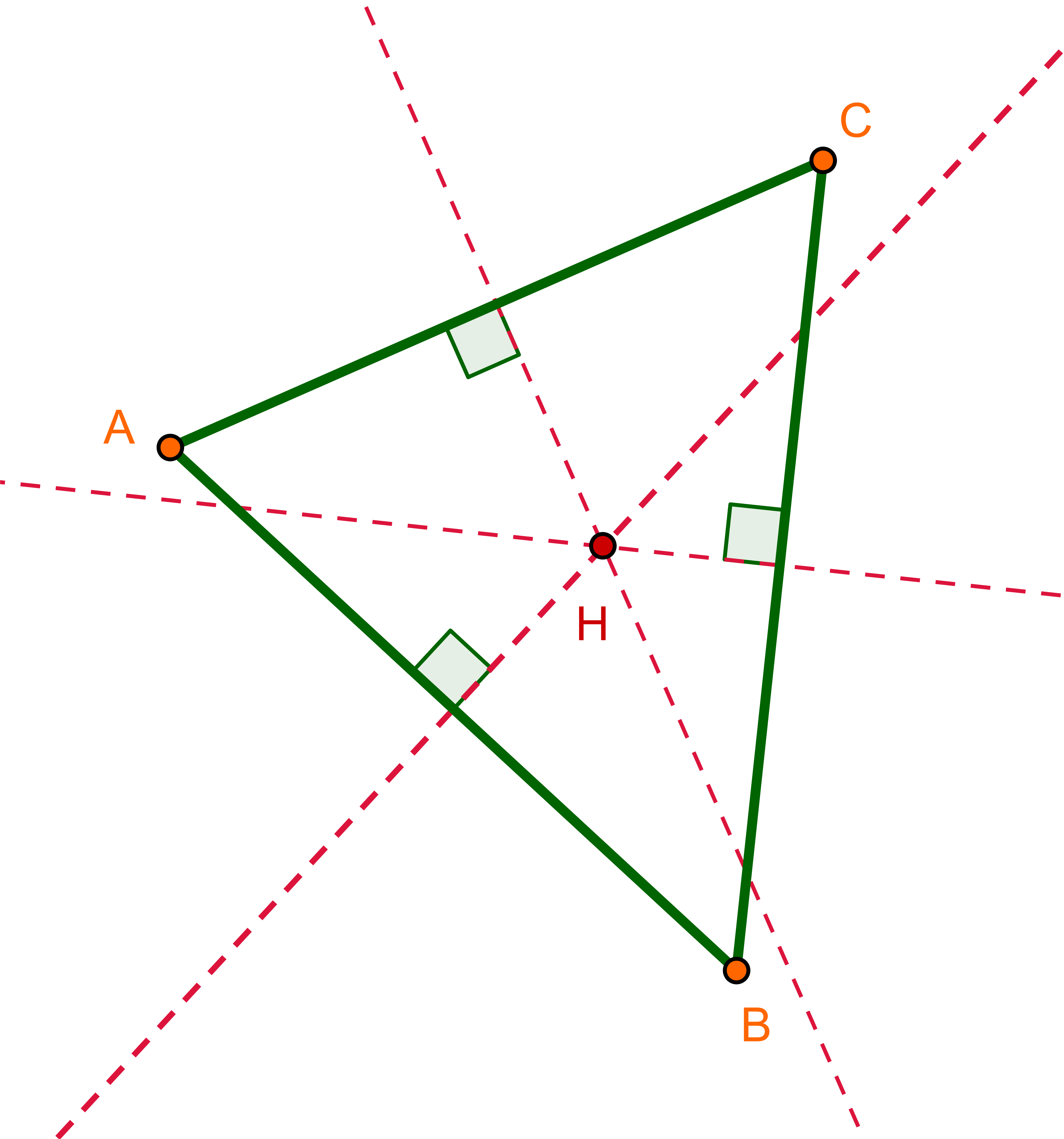 Line segment AB bisector, point of bisector has equal distance to endpoints, bisectors meets on the center of surrounding circle of triangle